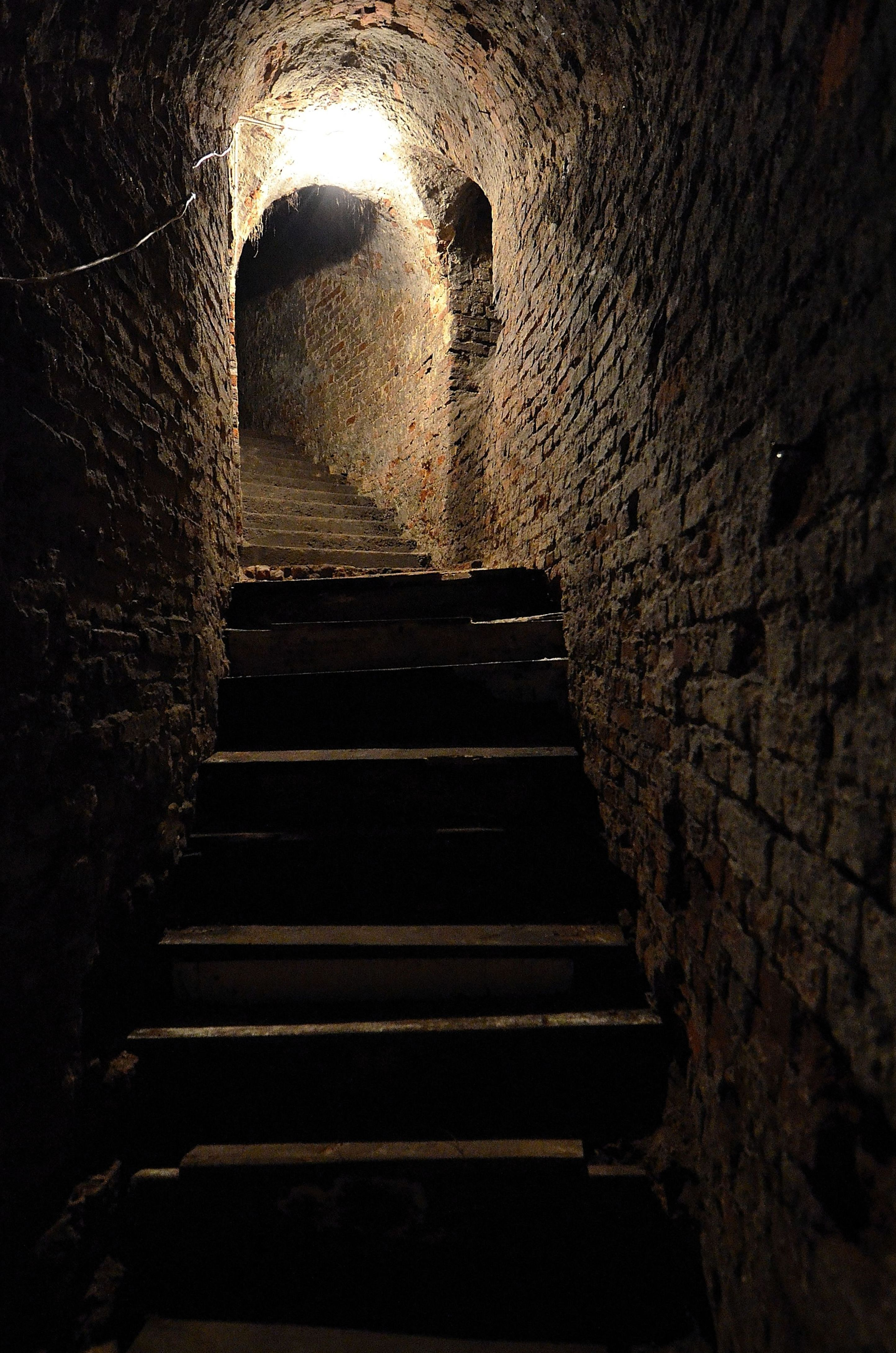 The staircase at the Elizeum in Warsaw (listed in the Register of Historic Monuments on 1.07.1965, reference no. 278)